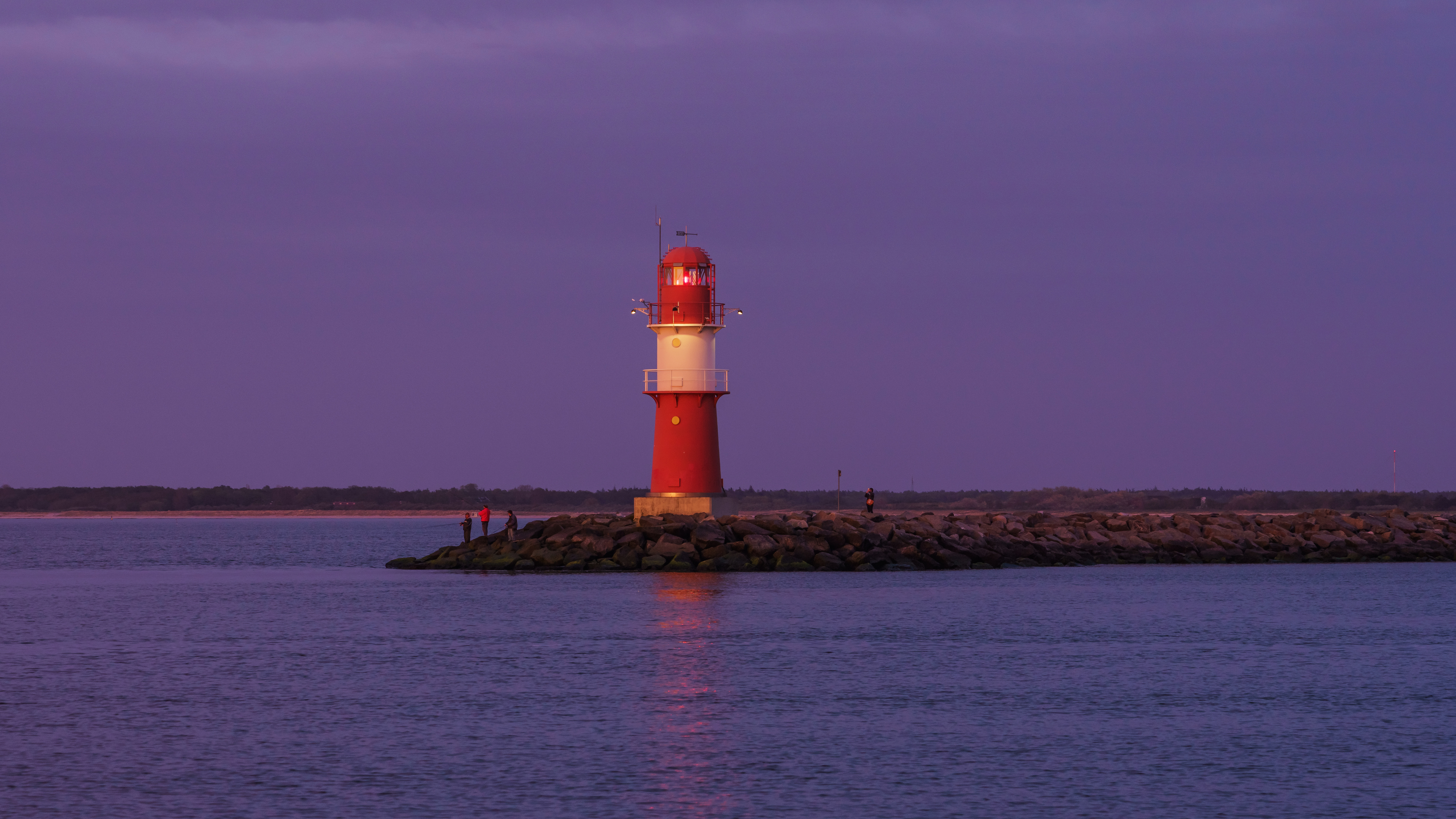 Sunset at the port of Warnemünde, Rostock, Germany